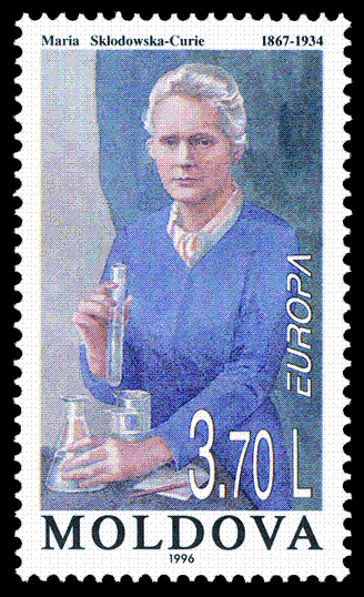 Stamp of Moldova; Marie Curie